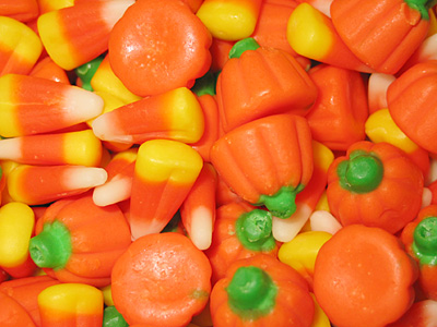 Candy corn and candy pumpkins—one of my favorite parts of Halloween. They're cute and yummy. I hope that others enjoy these shots as much as I do.